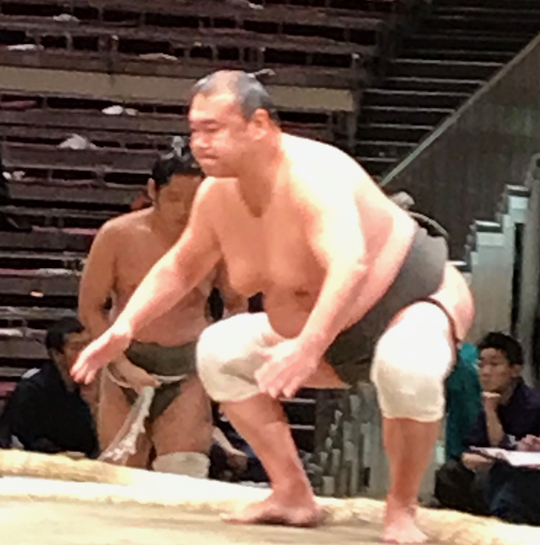 Taken at 2019 January tournament in Ryogoku, Tokyo